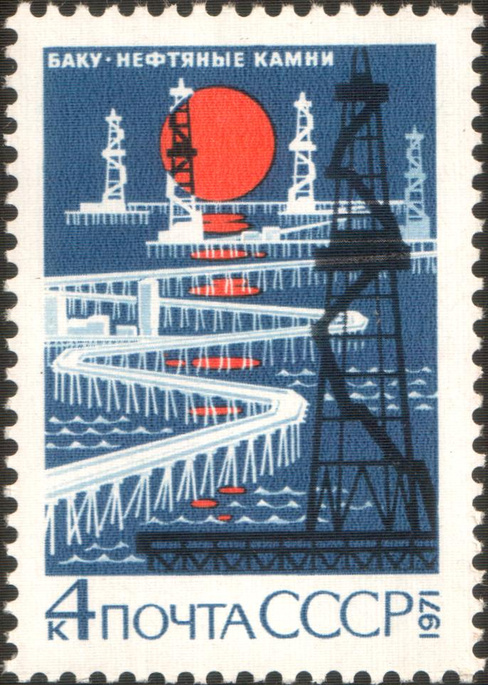 Source: From - depicts the town of Oil Rocks